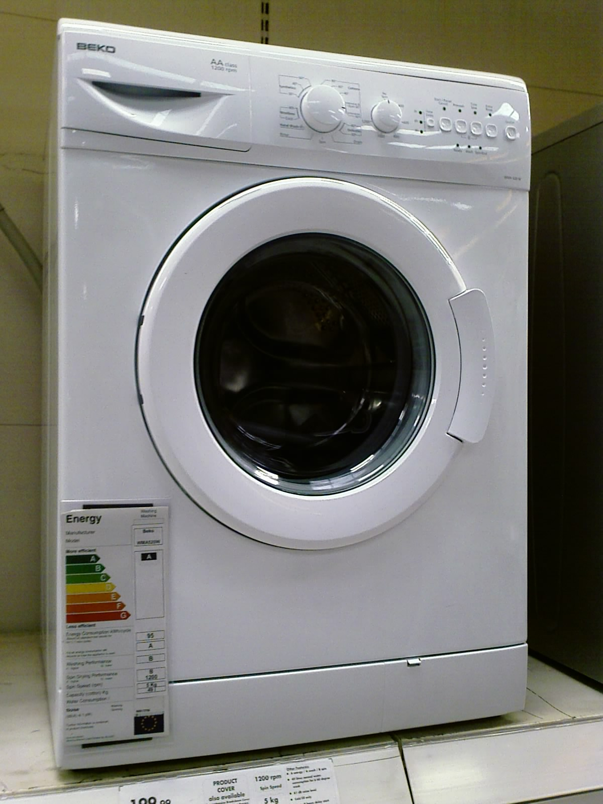 Andy's New Washing Machine